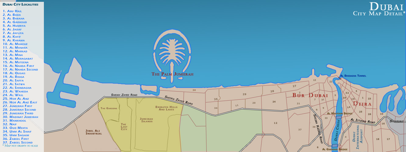 I created this vector using multiple hardcopy maps of the city of Dubai. For more information, please contact me. 4/30/2007